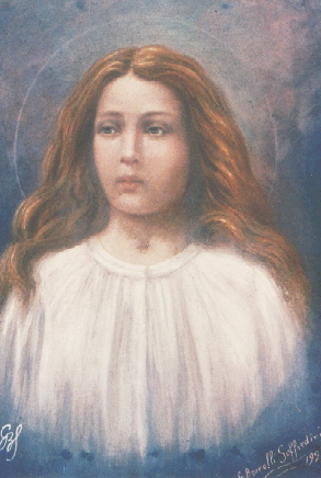 Painting of Maria Goretti.